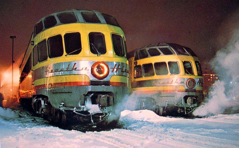 Photo of the Skytop observation/lounge cars that ran on the Hiawatha named trains of the Chicago, Milwaukee, and St. Paul Railroad. These cars went into service in 1948, and were painted in the Union Pacific color scheme in 1955. This photo shows two of the card in the original Milwaukee Road color scheme. The Skydome cars in the photo were part of the Morning Hiawatha and Afternoon Hiawatha trains.